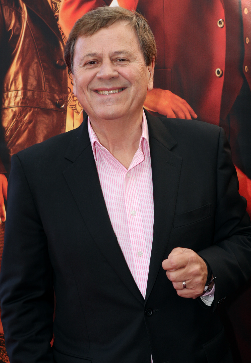 Anchorman 2 The Australian Premiere The Legend Continues